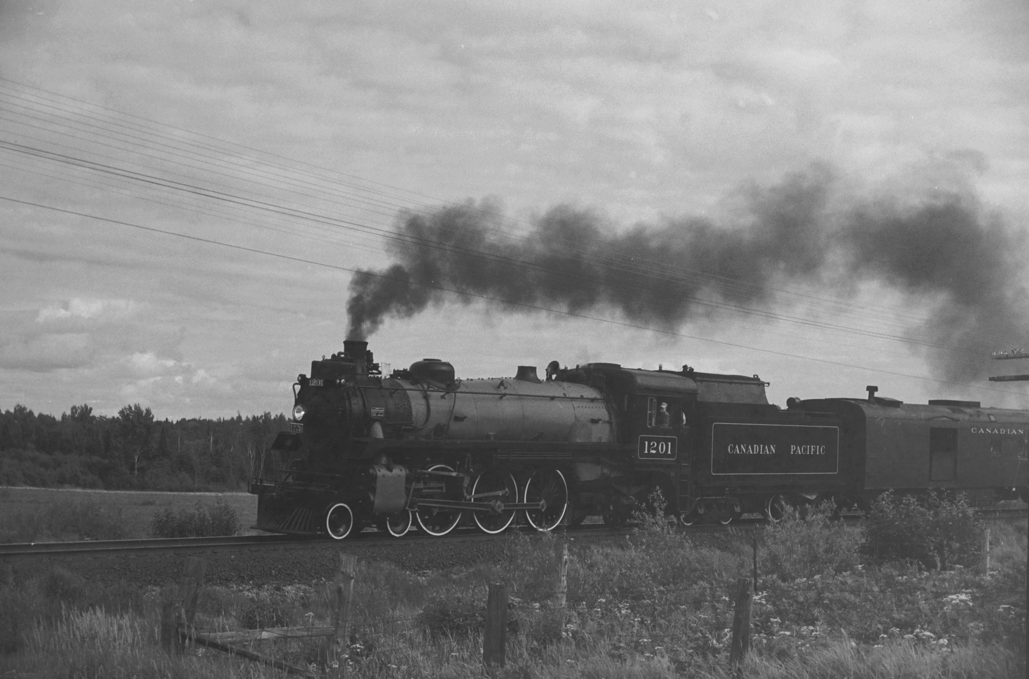 Period photo of Canadian Pacific locomotive #1201 in motion. This was the last engine built at the CPR Angus Works in Montreal. It was saved from demolition by workers at the factory and is now in the collection of the Canada Science and Technology Museum, Ottawa.